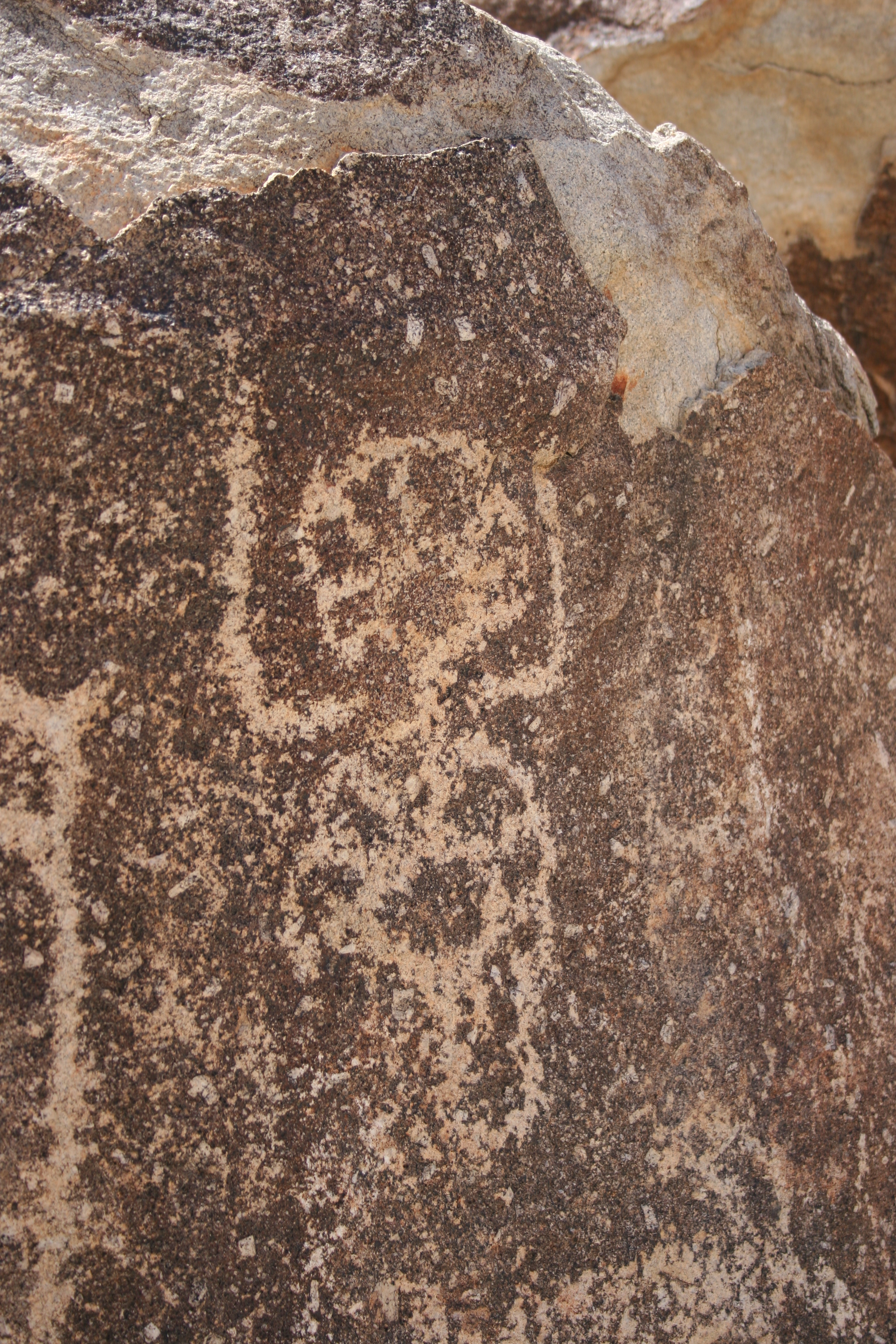 Grapevine Canyon Petroglyphs